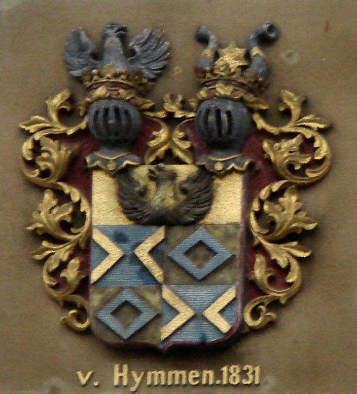 Coat of Arms of family von Hymmen at castle Burg Endenich in Bonn-Endenich, Germany. '